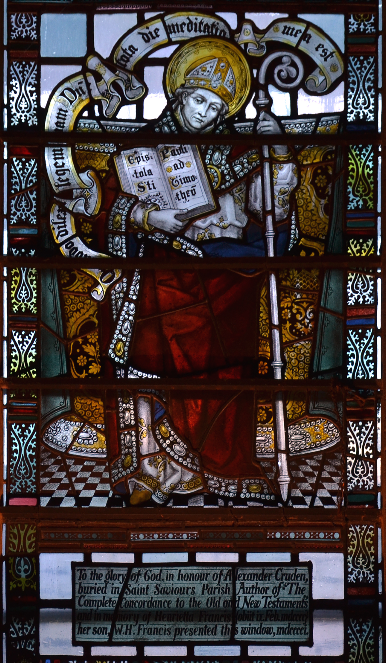 Stained glass window of Saint Timothy in Southwark Cathedral, in London.